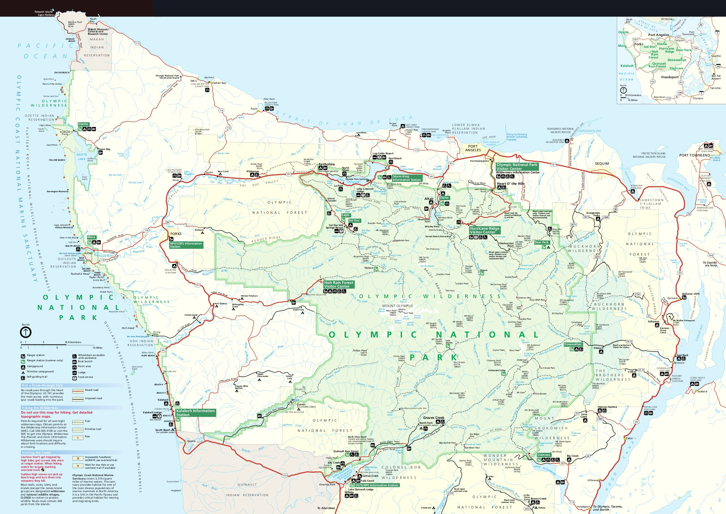 NPS map o Olympic National Park